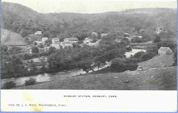 Postcard: Distant view of Roxbury, Connecticut, undivided back postcard of a type published between 1901 to 1907 Descrpition: Caption from picture side of postcard: "ROXBURY STATION, ROXBURY, CONN." Also on picture side of postcard: "Pub. by J. I. West., Washington, Conn." Store Web page states: "Pub by J I West, Washington, Conn, [...] Undivided Back (1901-07 era), Postally Unused